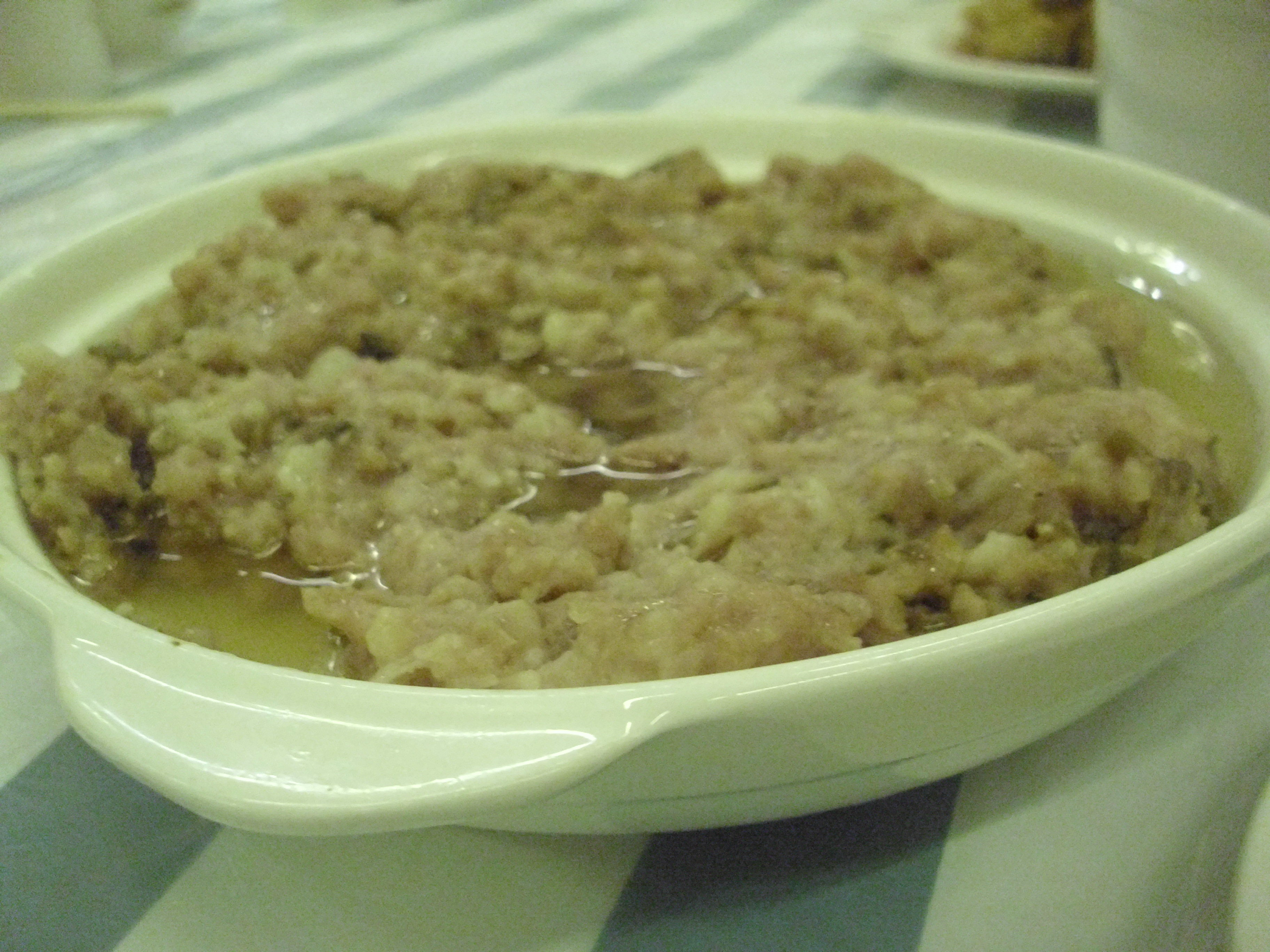 原创照片。